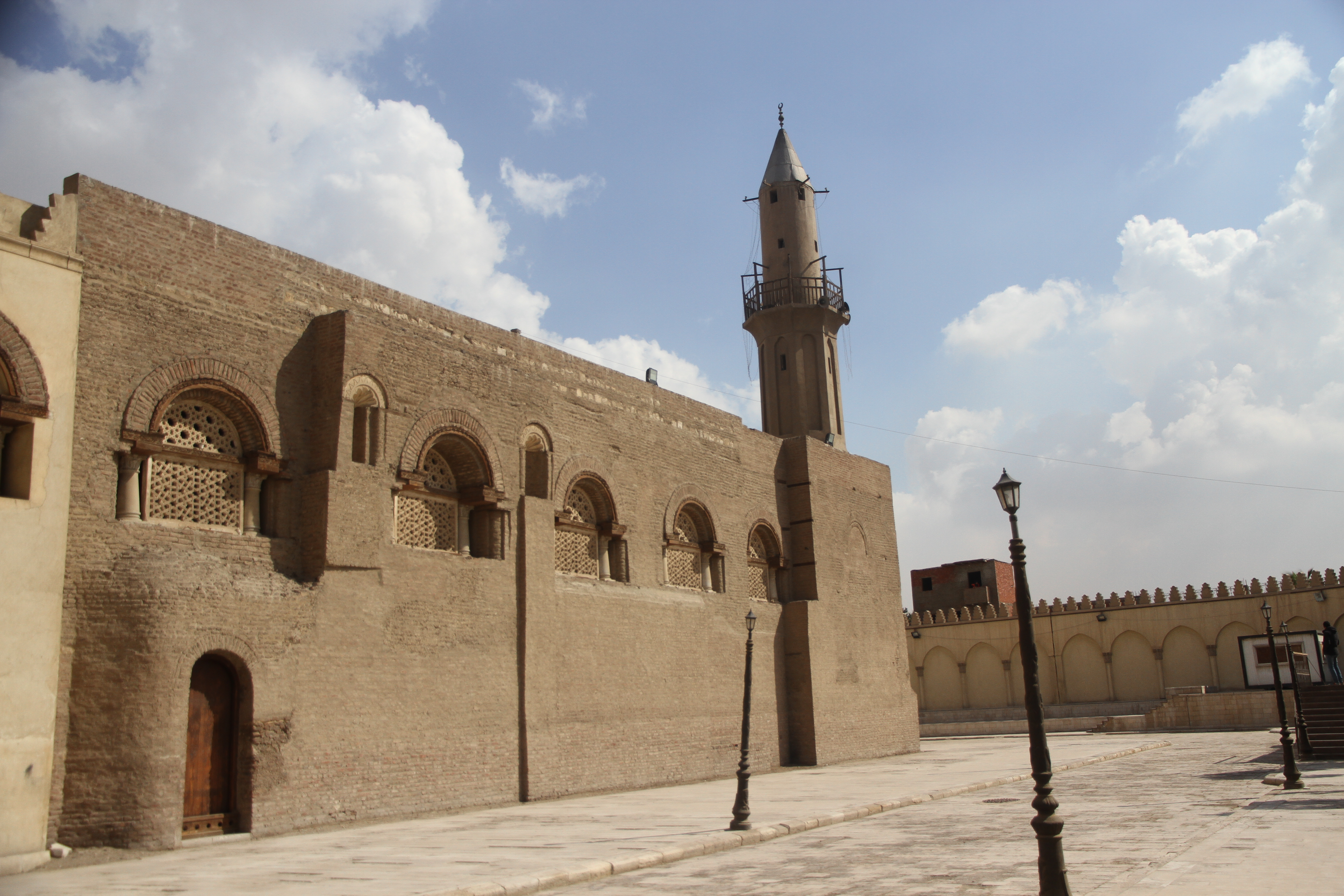 This is an image with the theme "Play" from: Egypt